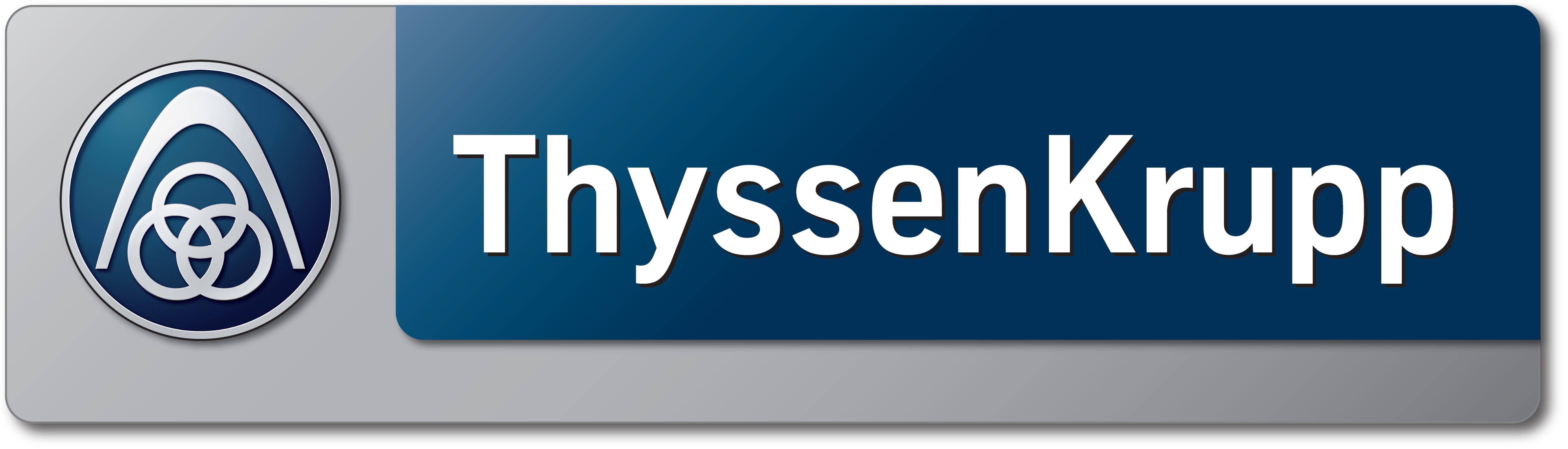 ThyssenKrupp Logo